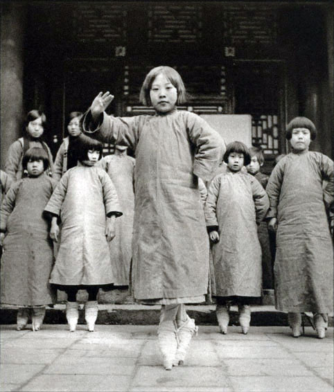 Students at a theatre school in old Beijing, China